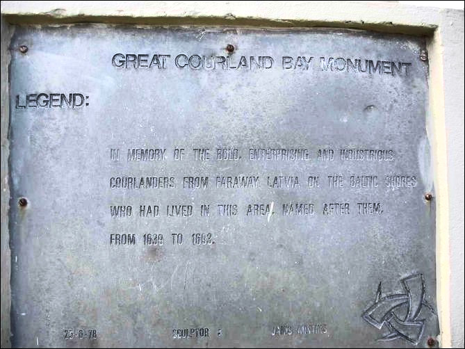 The plaque accompanying the Great Courland Bay Monument in Plymouth, Tobago commemorates 17th-century Courlander (Couronian) colonists, who were among the earliest settlers in the area. The monument itself, a modernist sculpture comprised of tall beige cylinders and a series of steps, made in 1978, is not shown in the photo. The inscription on the plaque reads: "In memory of the bold, enterprising and industrious Courlanders from faraway Latvia on the Baltic shores who had lived in this area, named after them, from 1636 to 1663. [Date of dedication:] 25-6-78. Sculptor: Janis Mintiks"